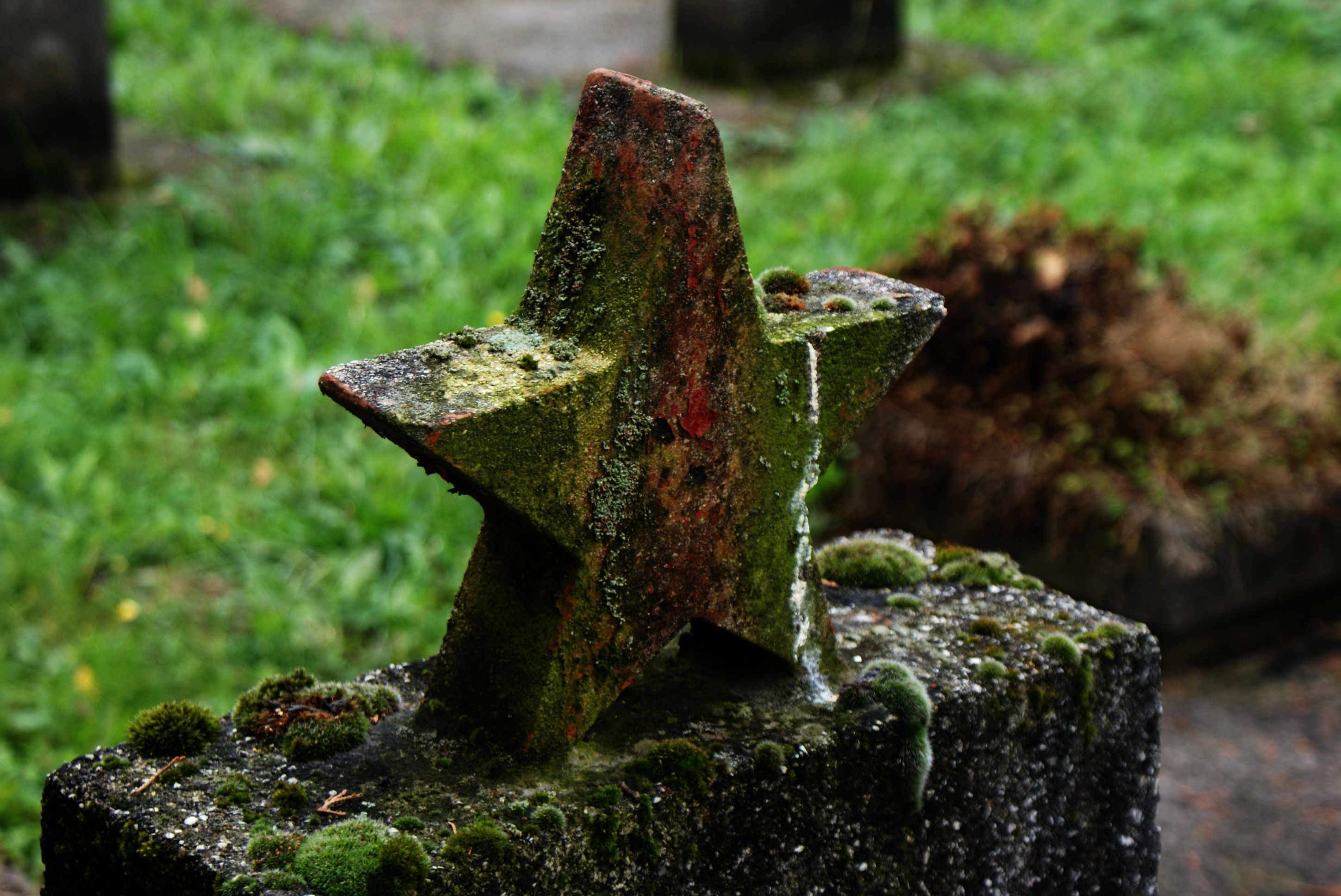 Red star